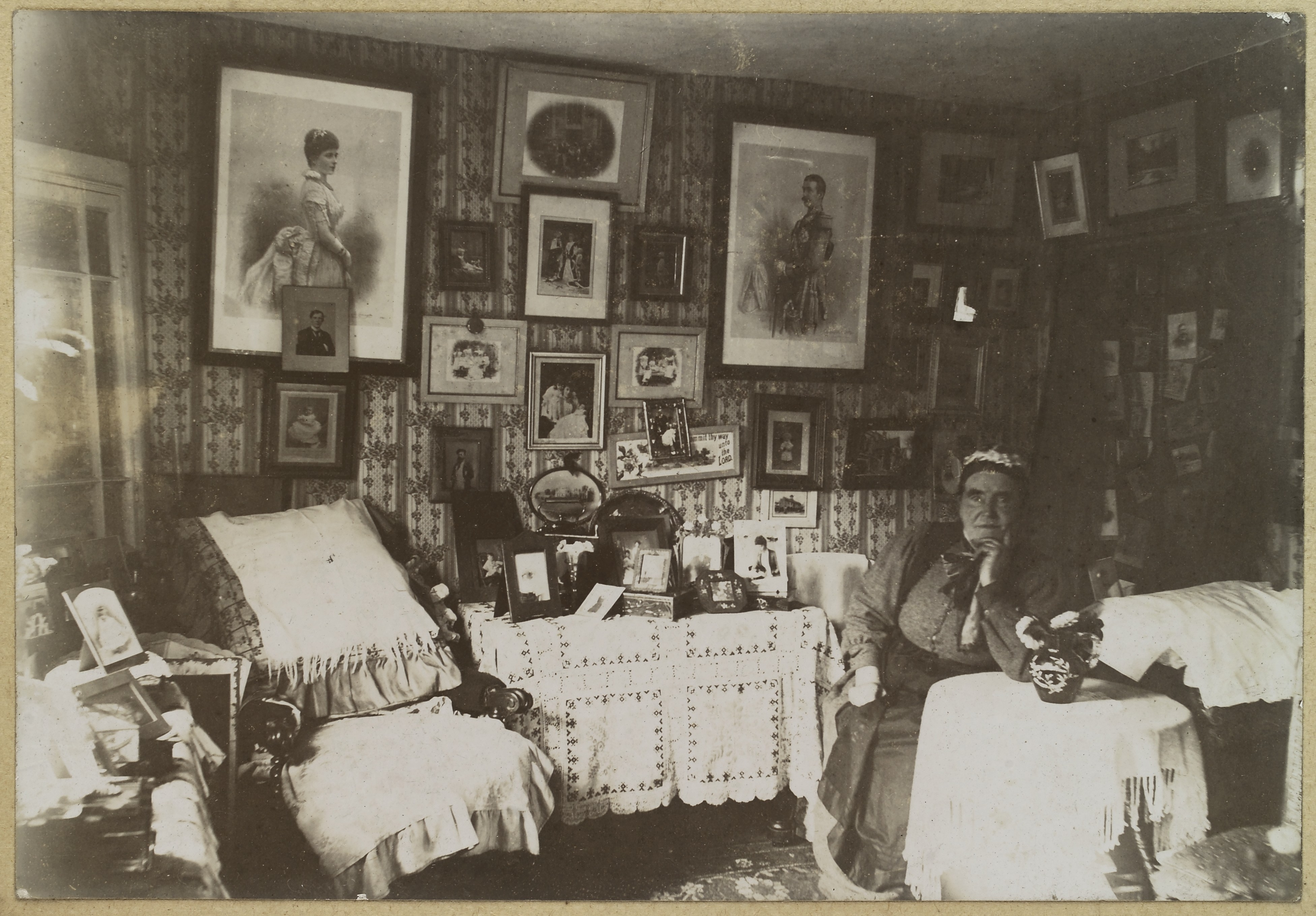 Nurse Tremlow, a monthly nurse who looked after women during the first month after childbirth. She attended Helen Lucas-Tooth and also English and German Royalty. Photographed with photos of her employers in her almshouse at Langley nr[?] Slough, Buckinghamshire, England. Early 20th century. Iconographic Collections Keywords: Nurses; Housing; Victorian; Midwifery; Costume; Childbirth; Parturition